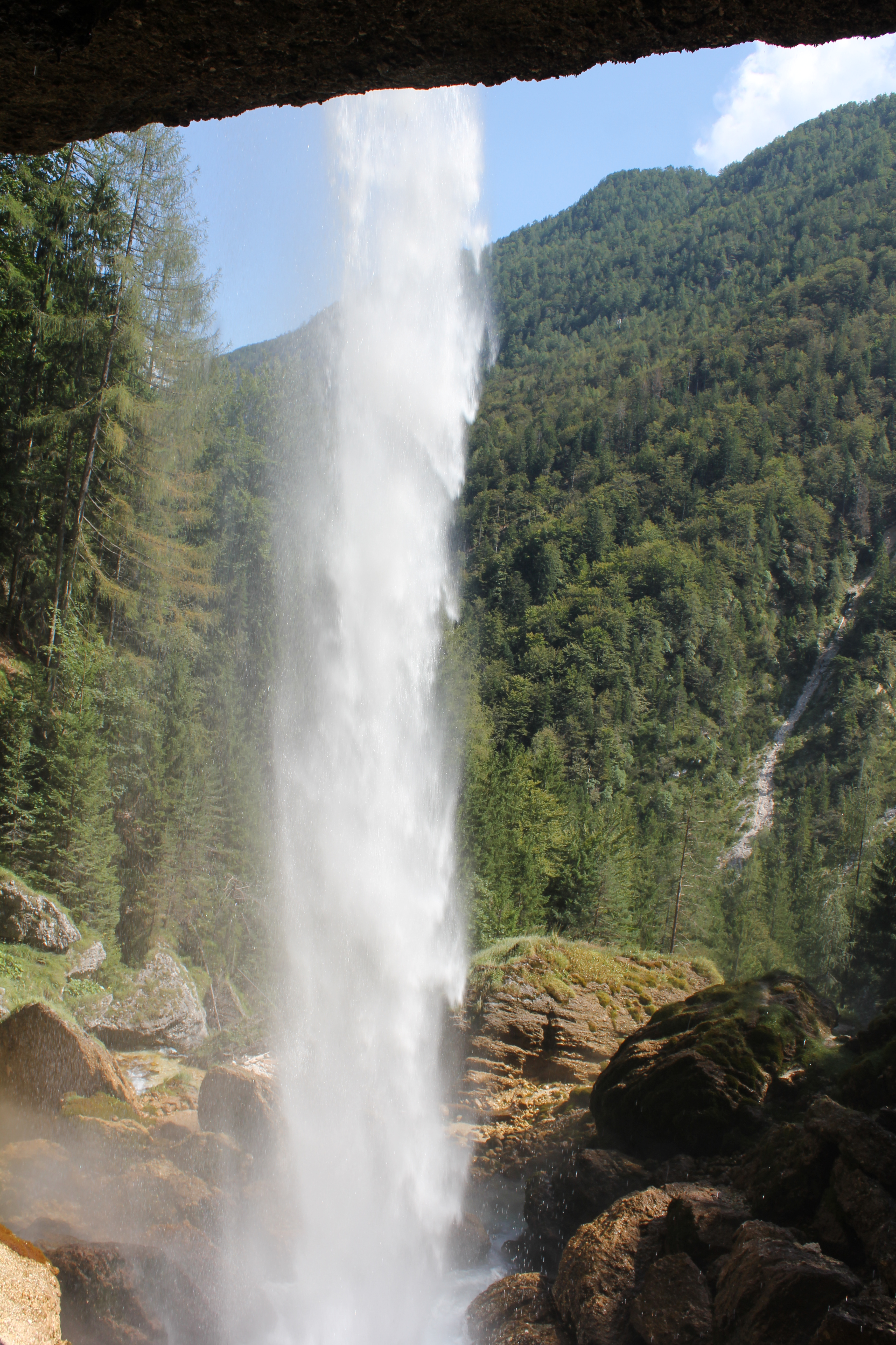 The Peričnik Falls in Vrata Valley in the julian alps, slowenia